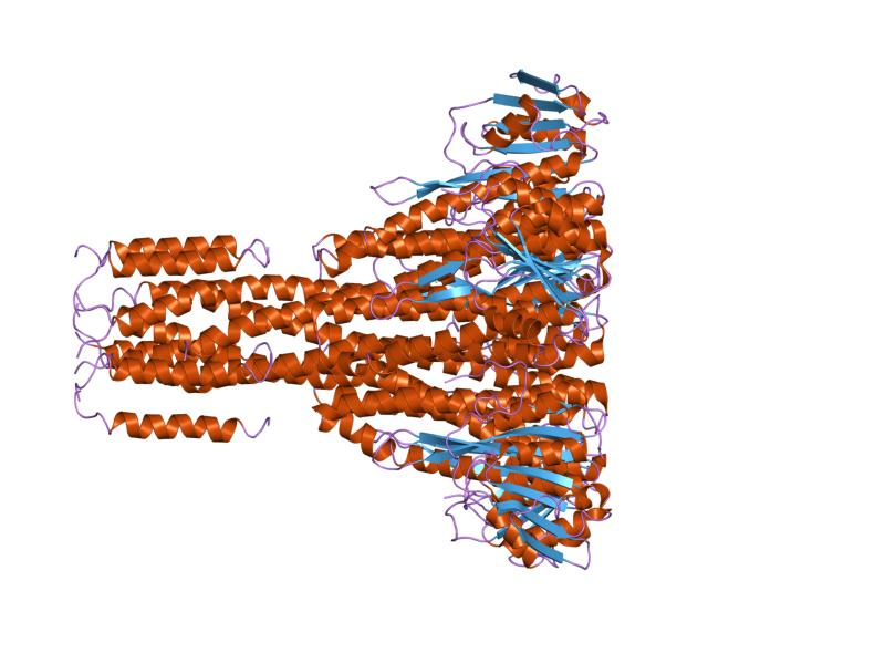 Cartoon representation of the molecular structure of protein registered with 2bbj code.